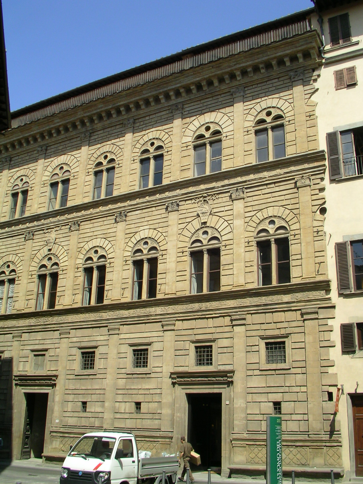 Rucellai Palace in Florence, Italy